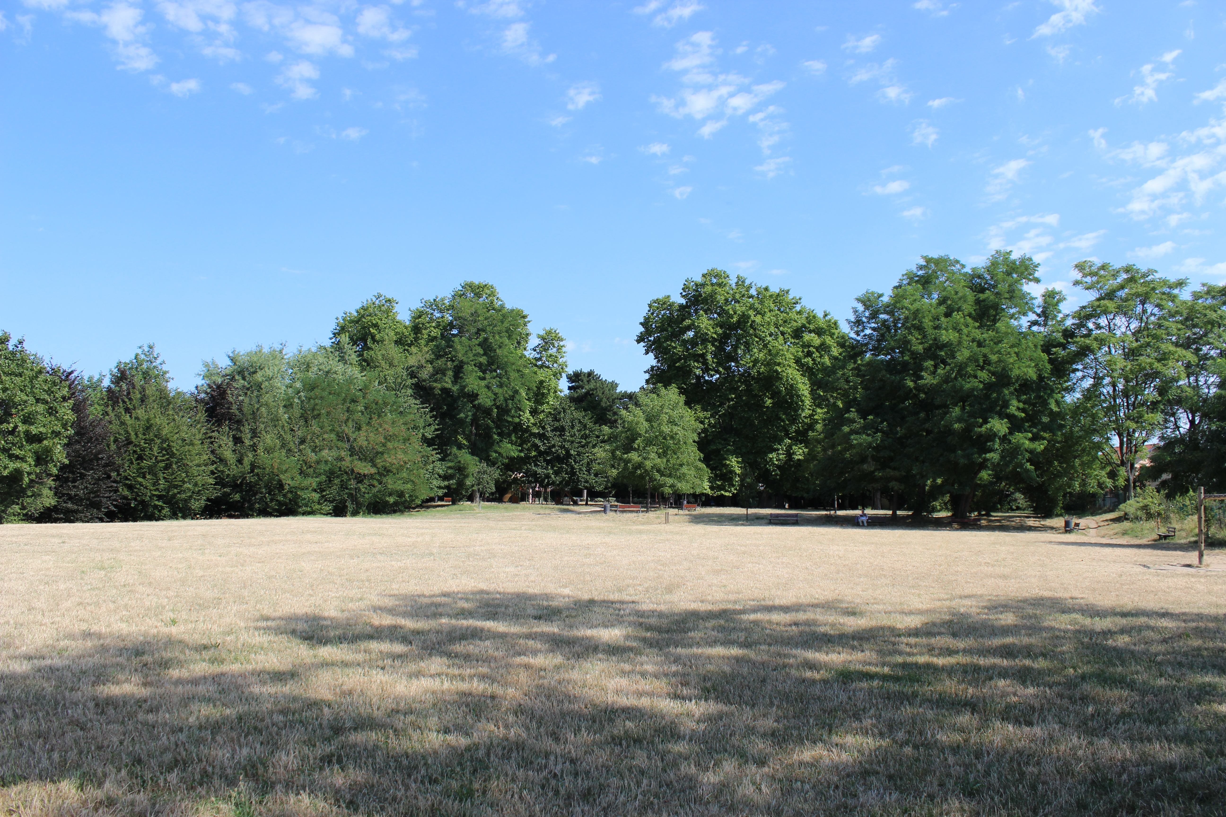 Foreground there is a stretch of grass and in the background there are trees